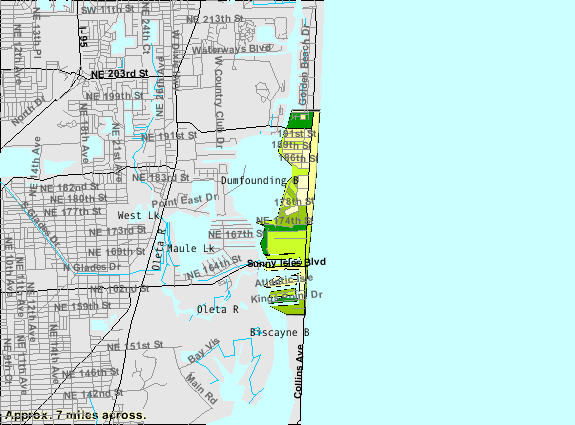 map of Sunny Isles Beach, Florida showing city limits